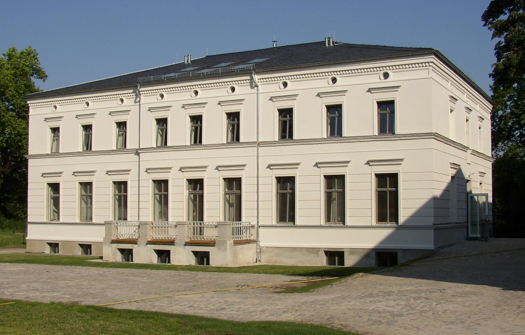 Guest house in Nauen-Groß Behnitz in Brandenburg, Germany